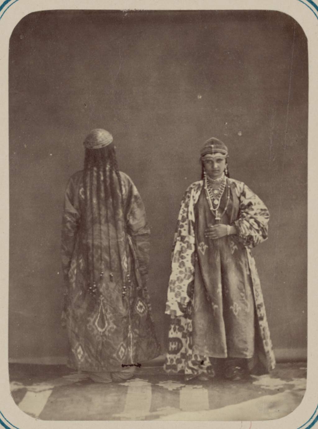 This photograph is from the ethnographical part of Turkestan Album, a comprehensive visual survey of Central Asia undertaken after imperial Russia assumed control of the region in the 1860s. Commissioned by General Konstantin Petrovich von Kaufman (1818–82), the first governor-general of Russian Turkestan, the album is in four parts spanning six volumes: “Archaeological Part” (two volumes); “Ethnographic Part” (two volumes); “Trades Part” (one volume); and “Historical Part” (one volume). The principal compiler was Russian Orientalist Aleksandr L. Kun, who was assisted by Nikolai V. Bogaevskii. The album contains some 1,200 photographs, along with architectural plans, watercolor drawings, and maps. The “Ethnographic Part” includes 491 individual photographs on 163 plates. The photographs show individuals representing the different peoples of the region (Plates 1–33); daily life and rituals (Plates 34–91); and views of villages and cities, street vendors, and commercial activities (Plates 92–163). Clothing and dress; Ethnographic photographs; Group portraits; Hair ornaments; Jewelry; Photographic surveys; Portrait photographs; Robes; Turkic peoples